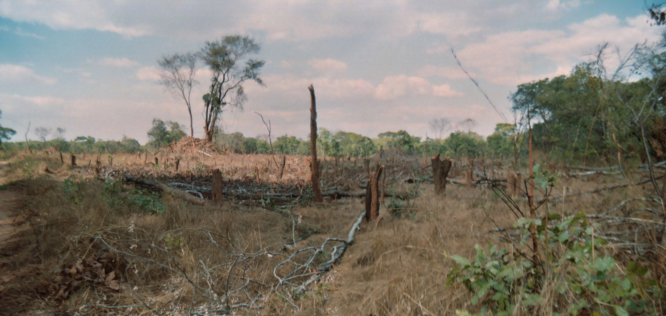 This is an example of "Block Chitemene" taken 4 km south of Kelongwa Village, Kasempa District, Northwestern Province, Zambia.